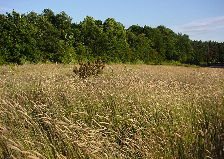 Site of Colonne d'Helfaut, Near Helfaut, Pas de Calais, north of france)